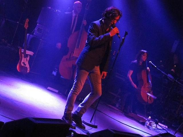 Carl Barât live at the Festival les Inrocks in 2010.